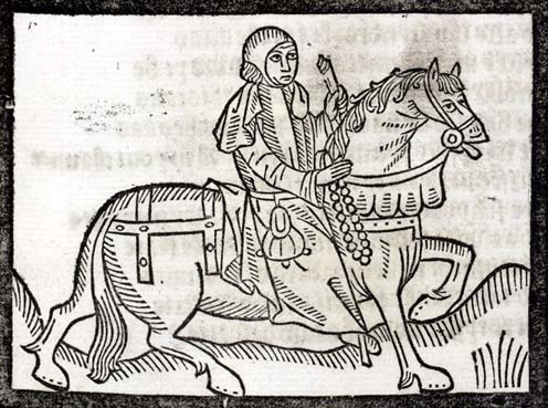 The Man of law, one of the pilgrims in Chaucer's Canterbury Tales